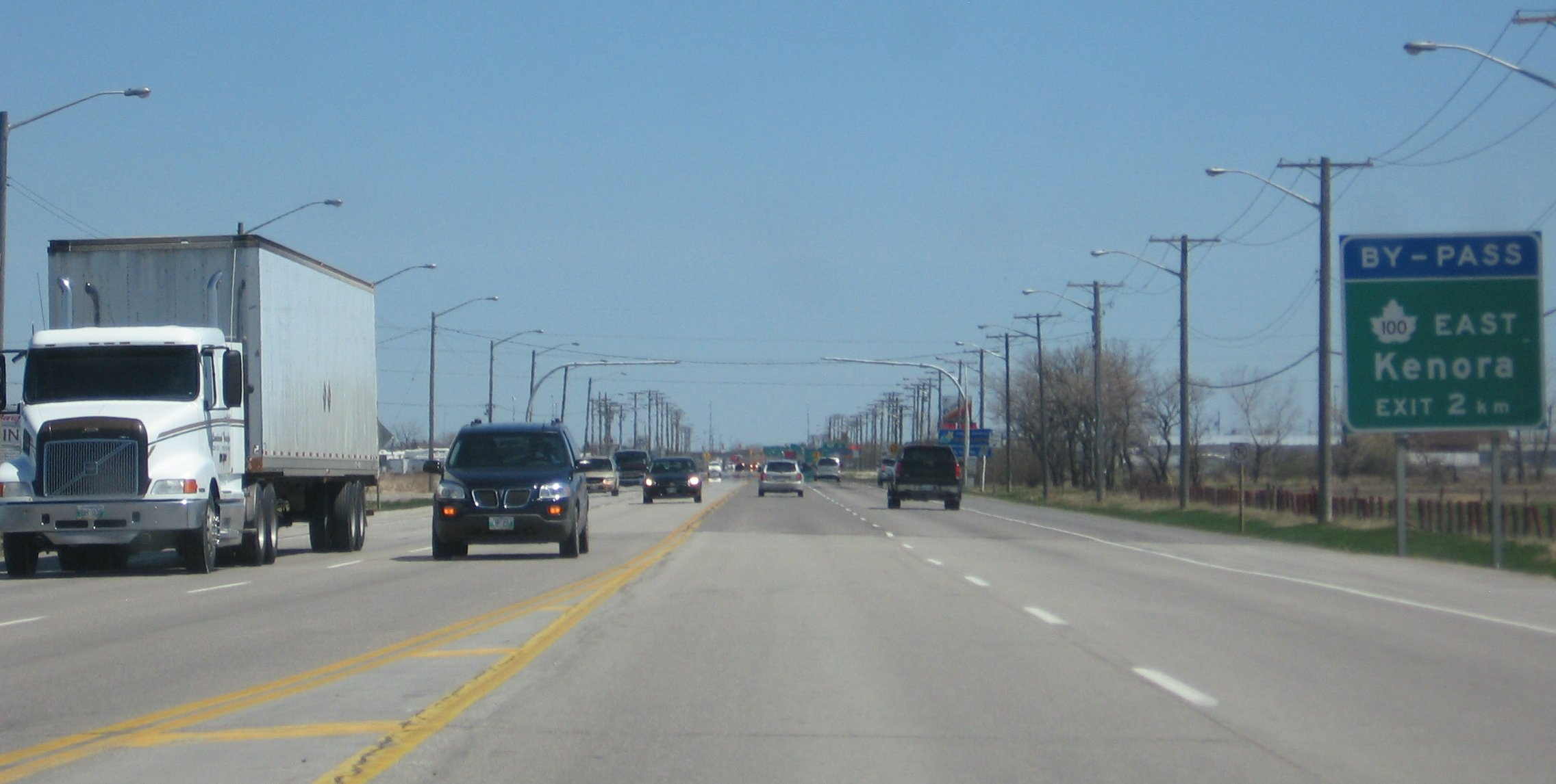 Heading westbound towards Winnipeg near Headingly, Manitoba